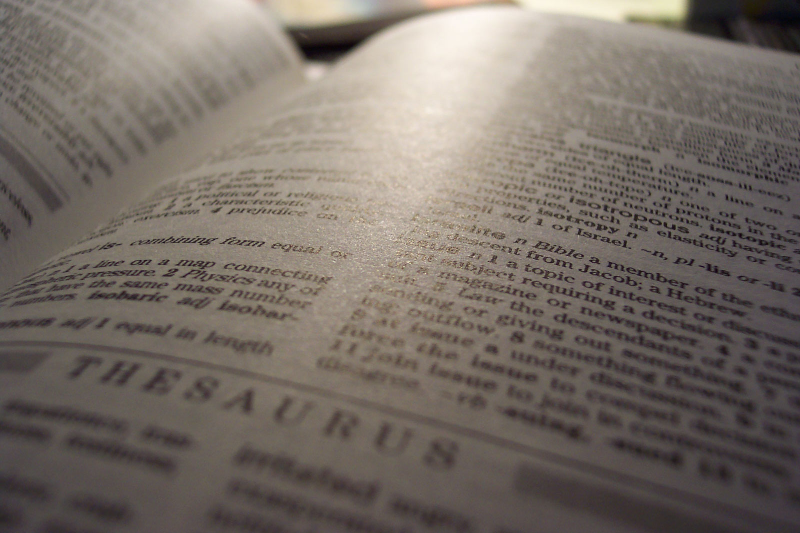 Thesaurus Taken by Enoch Lau on 24 May 2003. As a courtesy, please let me know if you alter this image or this image description page. Original filename was 100_0561.JPG.